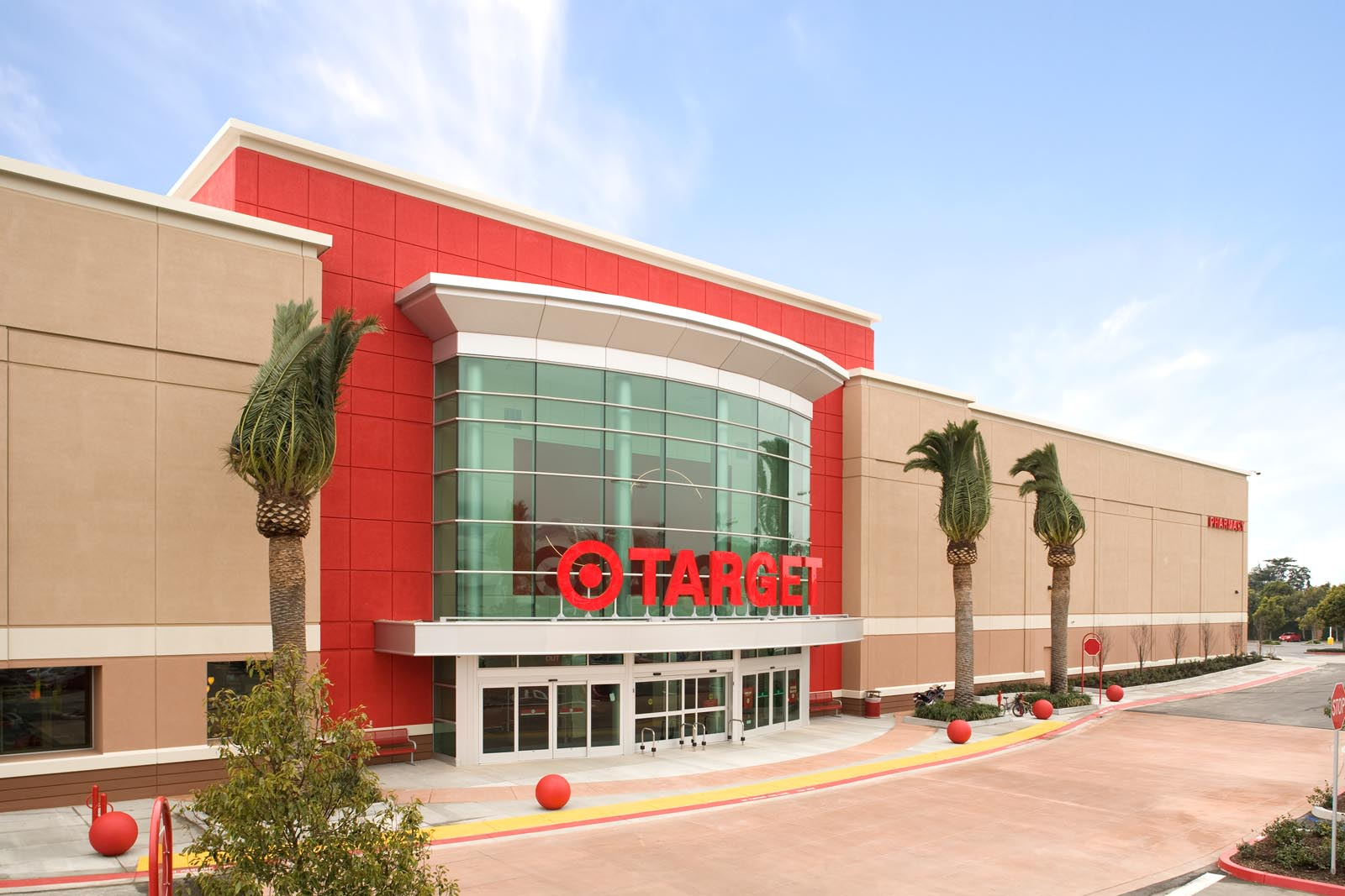 Target - Ventura